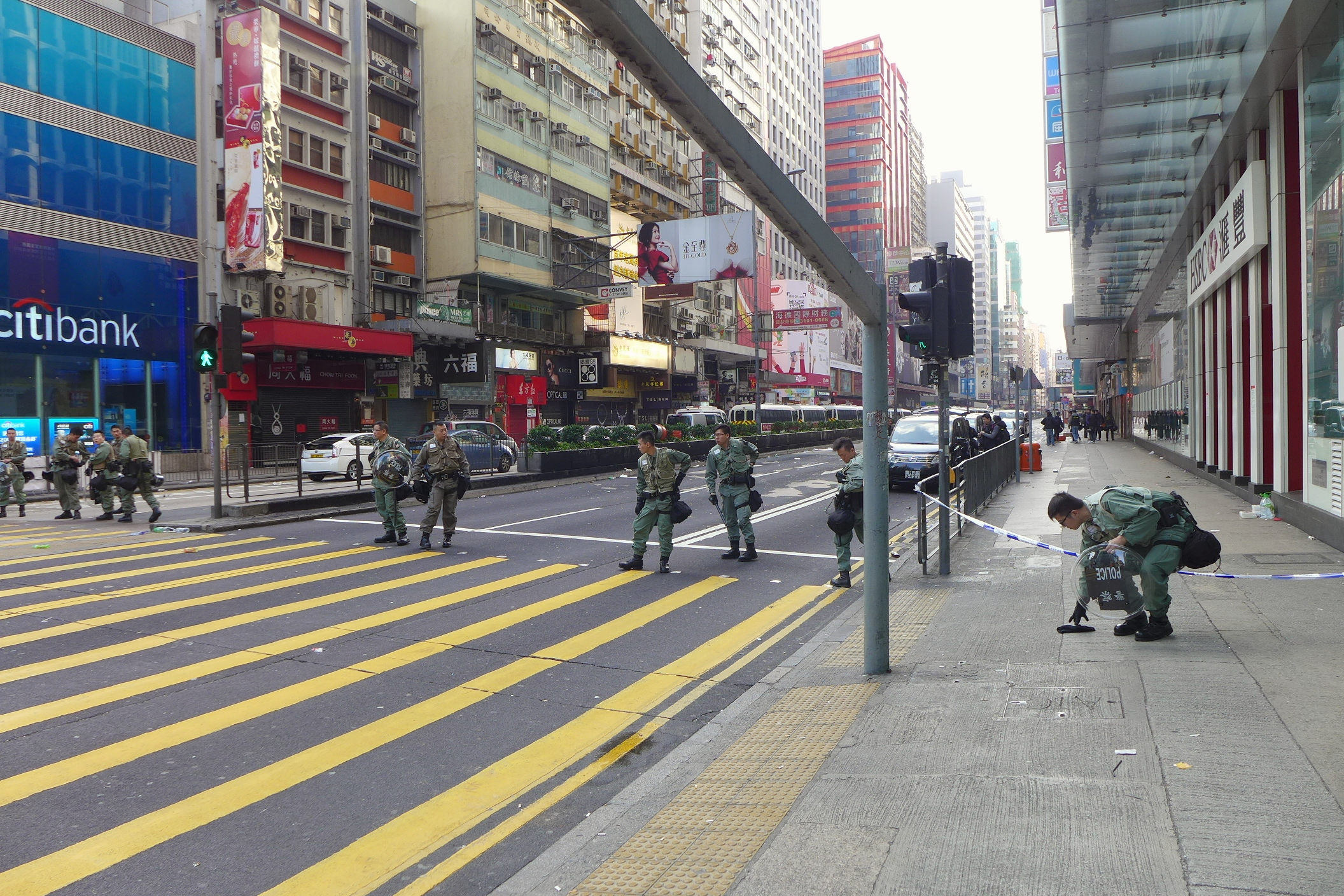 Riot police standby Nathan Road after Fishball Revolution